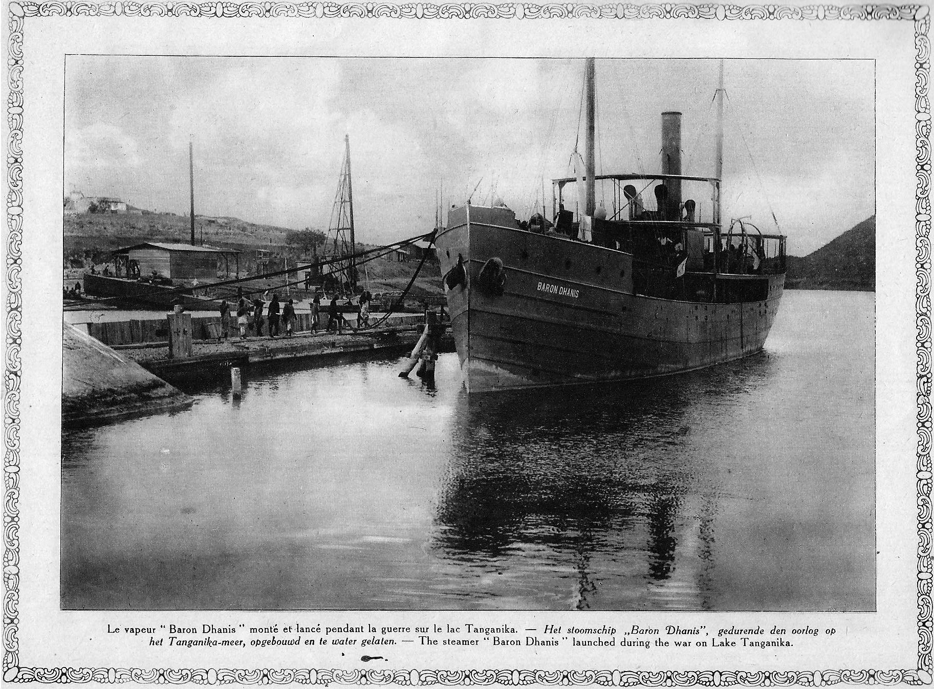 Baron Dhanis boat transported and mounted localy on the Tanganyika lake for the African First World war offensive.